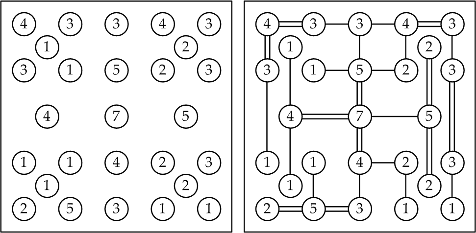 Hashiwokakero puzzle and solution